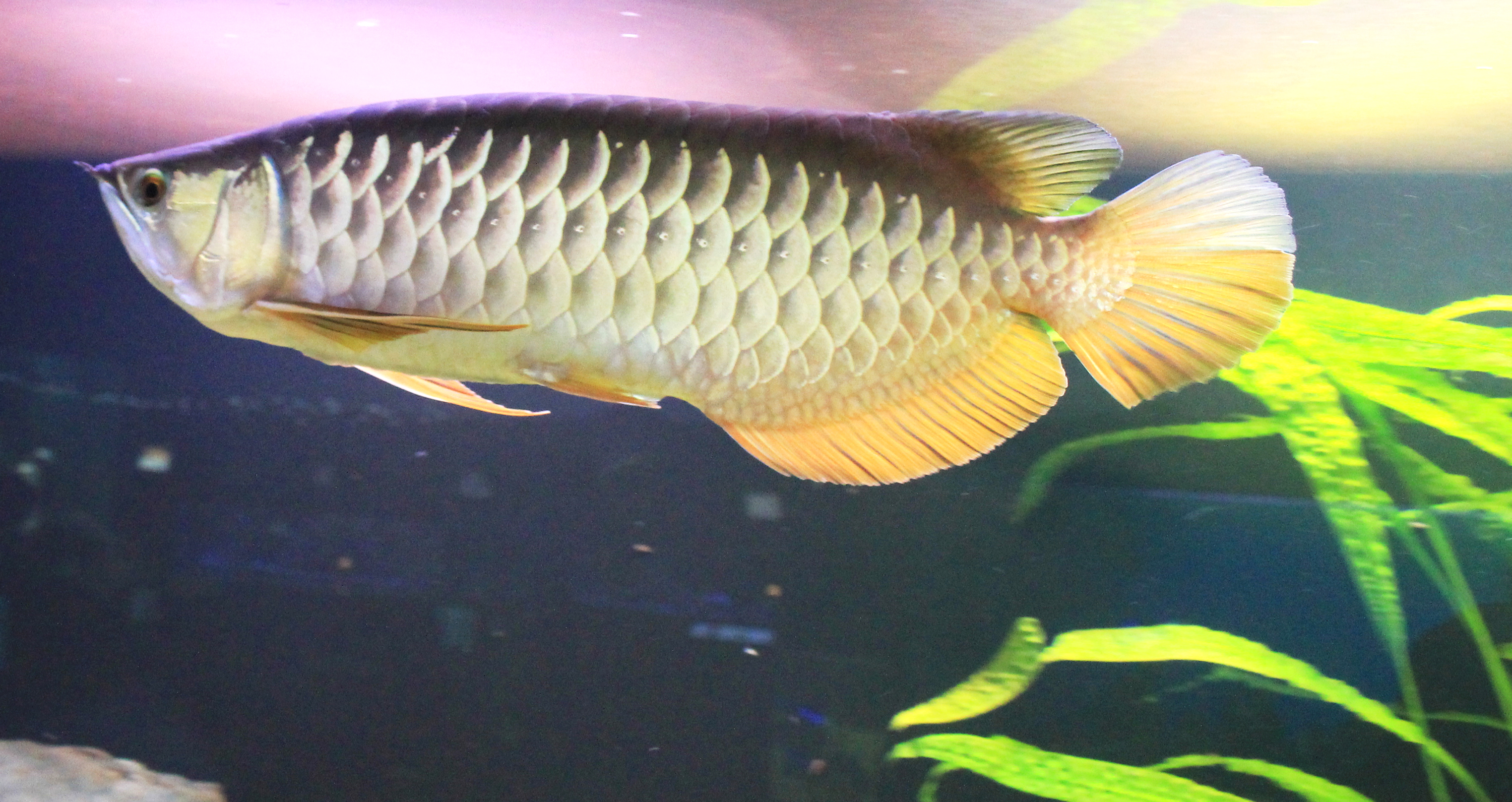 Fish Asian arowana Scleropages formosus in Prague sea aquarium, Czech Republic